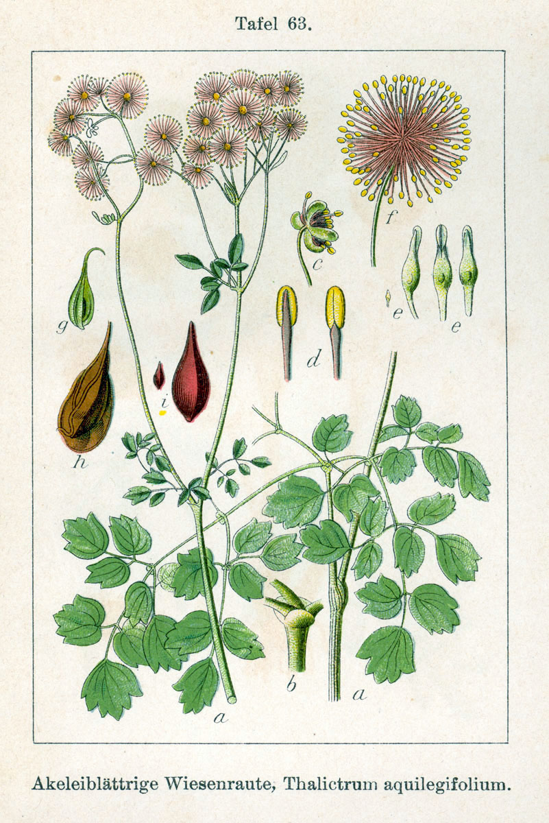 Thalictrum aquilegiifolium L. Original Description Akeleiblättrige Wiesenraute, Thalictrum aquilegifolium